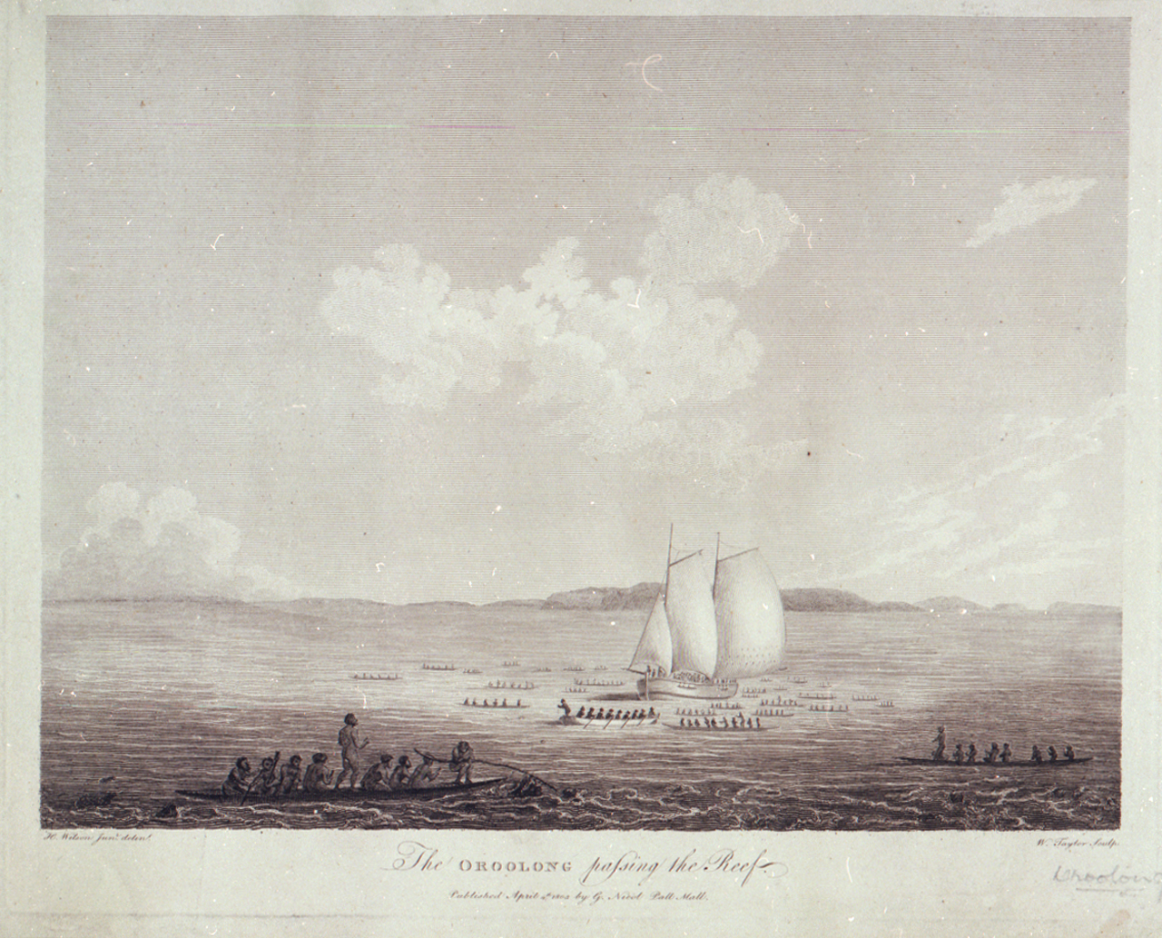 The Oroolong passing the Reef Print